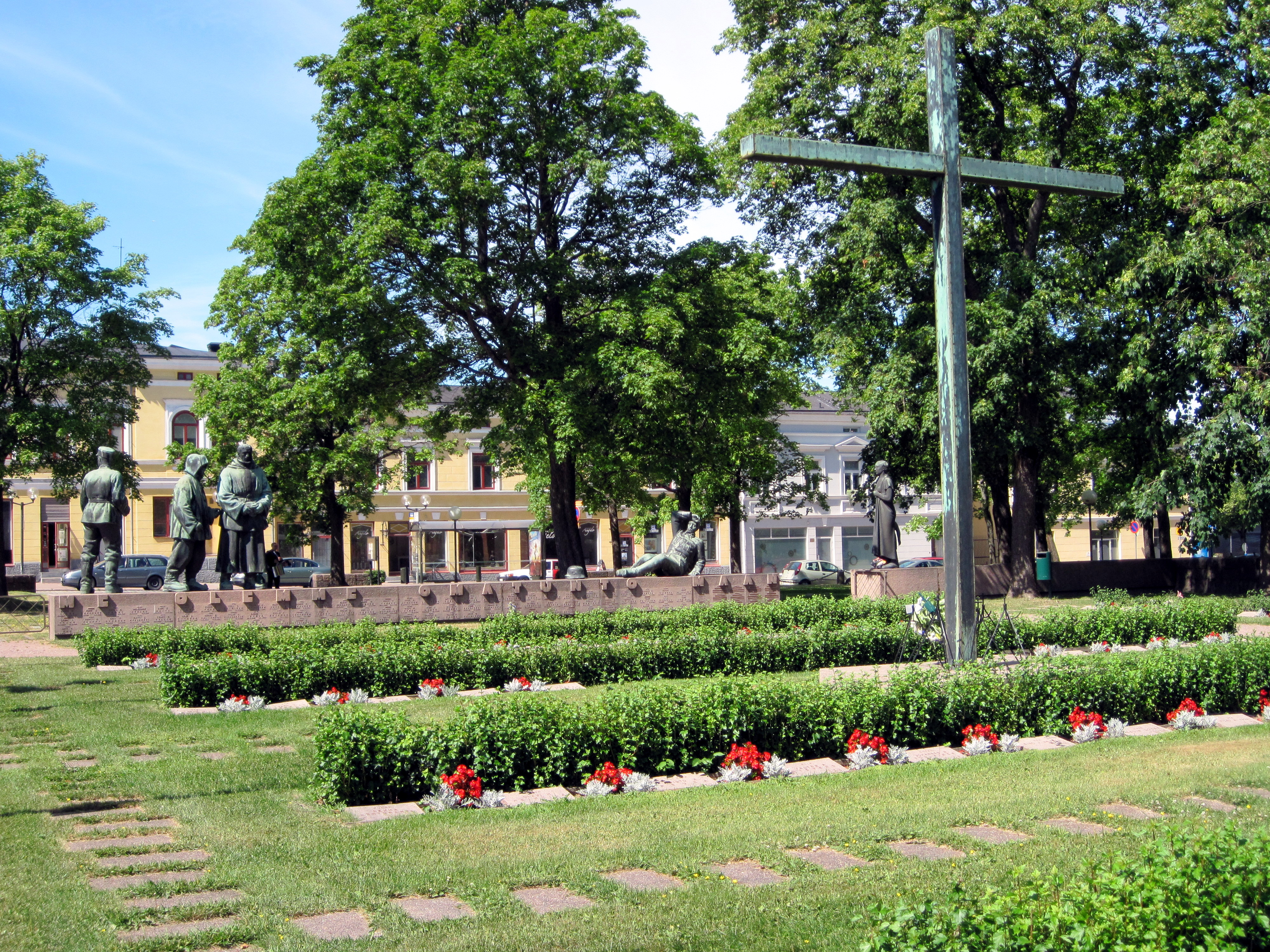 Military cemetary at Central Pori Church in Pori, Finland